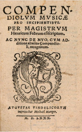 Compendiolum musicae, 1580, Heinrich Faber (1500-1552)